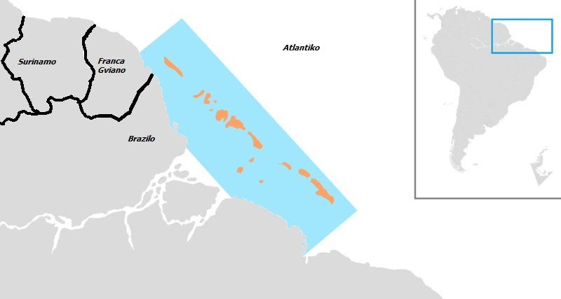 A rough map of the Amazon Reef, a coral + sponge reef, recently discovered off the coast of the northern South American coast, in April 2016. The map is based off File:Amazon Reef.png by User:PhilipTerryGraham, in turn based on File:Blank map of South America.svg by User:Camilo Sanchez and on a map of the reef, published in Science Advances. My modifications consist of adding country names and using black for political boundaries to distinguish them from rivers, which are (or rather is, since it's just the Amazon) white.